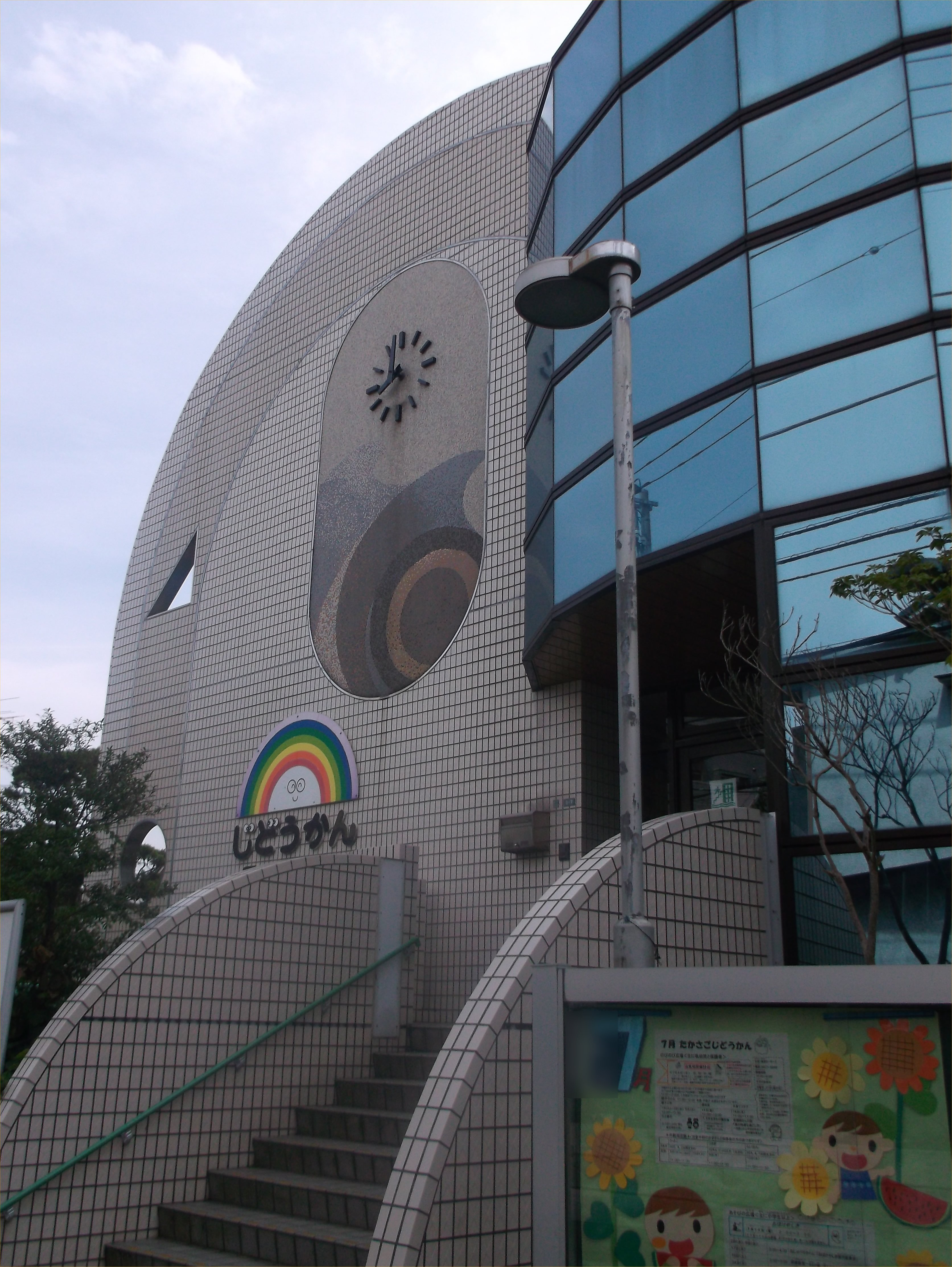 A photo of Takasago Children's Hall,Takasago,Katsushika-ku,Tokyo,Japan.